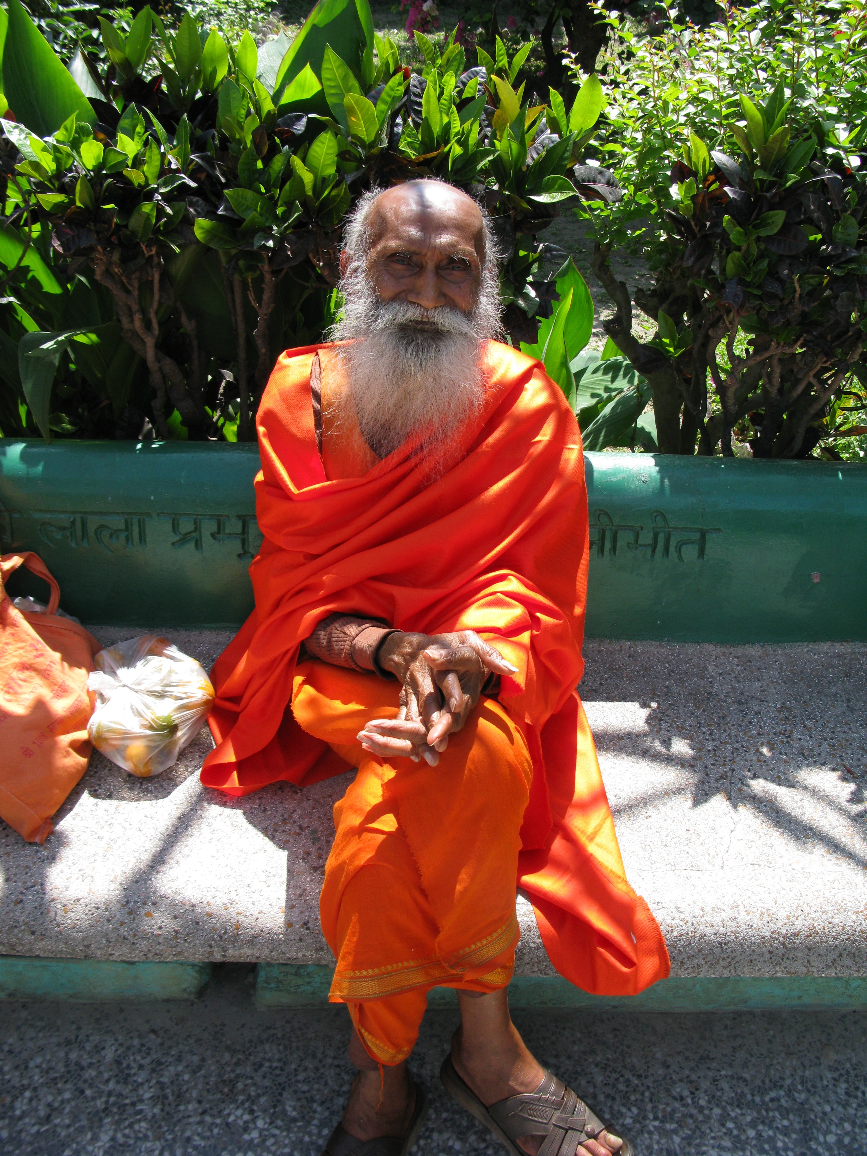 A Yoga instructor at Parmarth Niketan, Muni Ki Reti, Rishikesh.